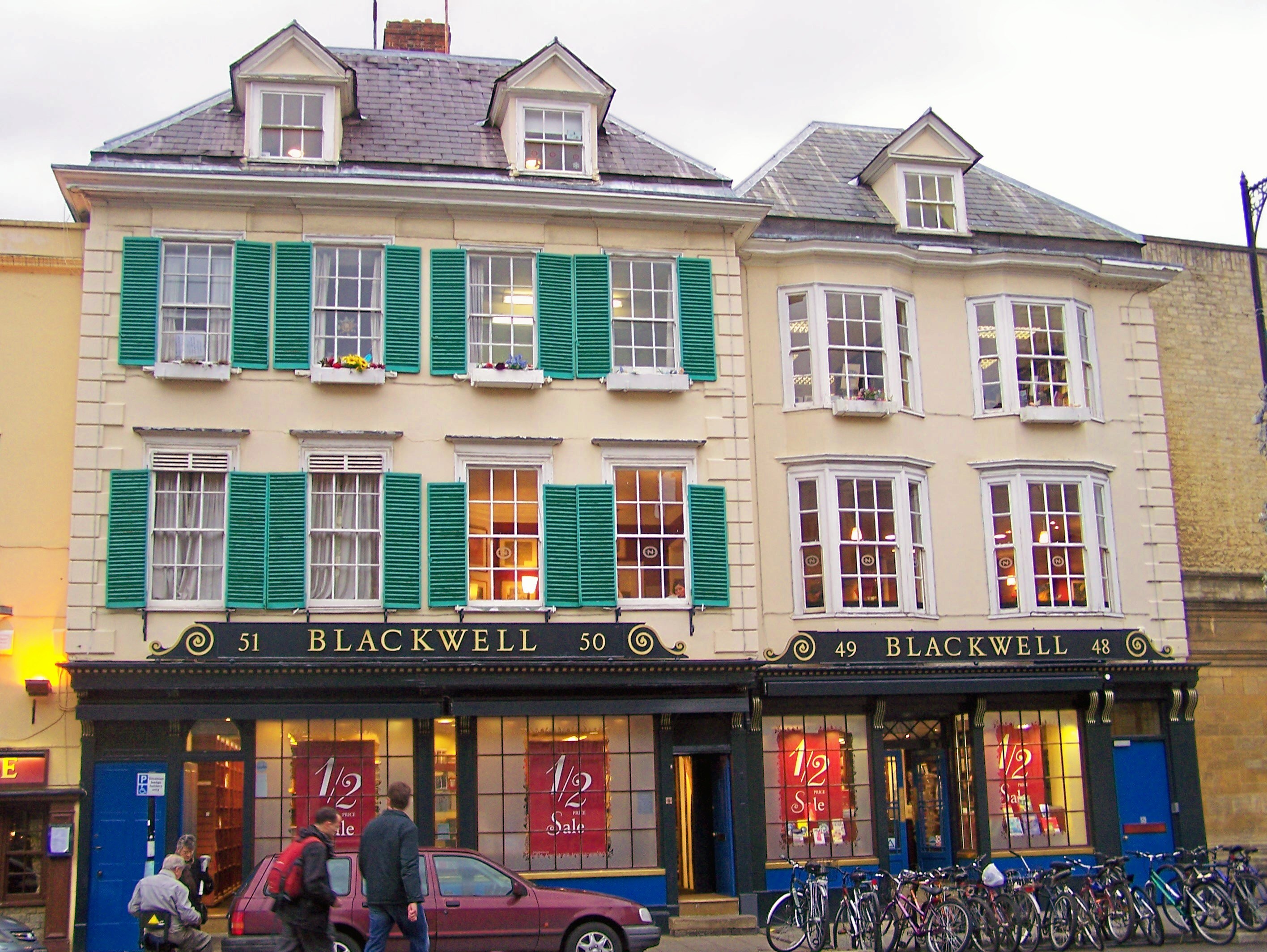 Blackwell's bookshop in Oxford, England. Bookstore patronised by most Oxford colleges. The basement of this bookstore is the largest room of books in Europe.Blackwell bookstore